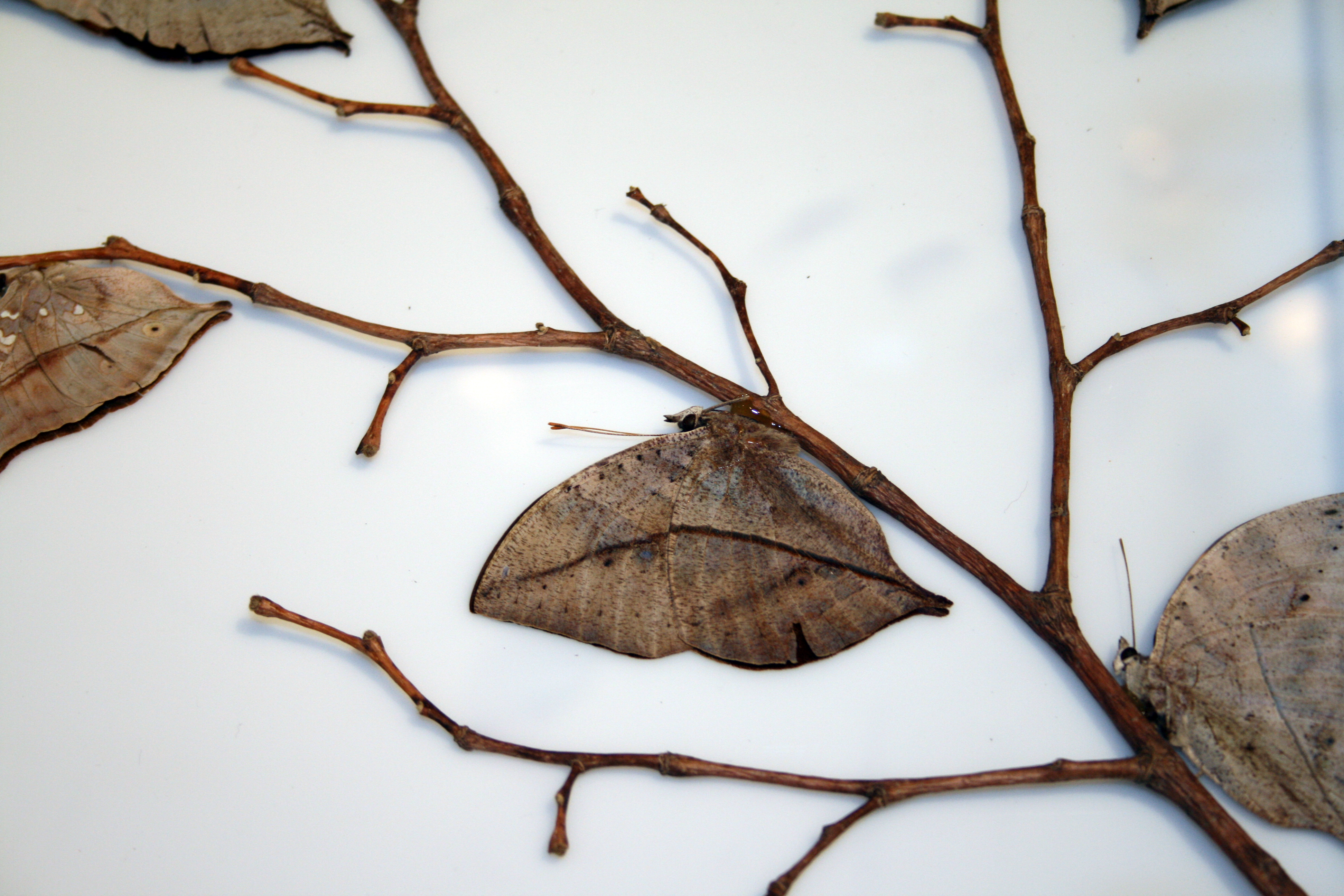 Kallima inachus. Photograph is taken at an insectarium hence the super-white background. This species of butterfly, as evident from the photograph, is famous for its wings, which resemble dry leaves and therefore provide camouflage.